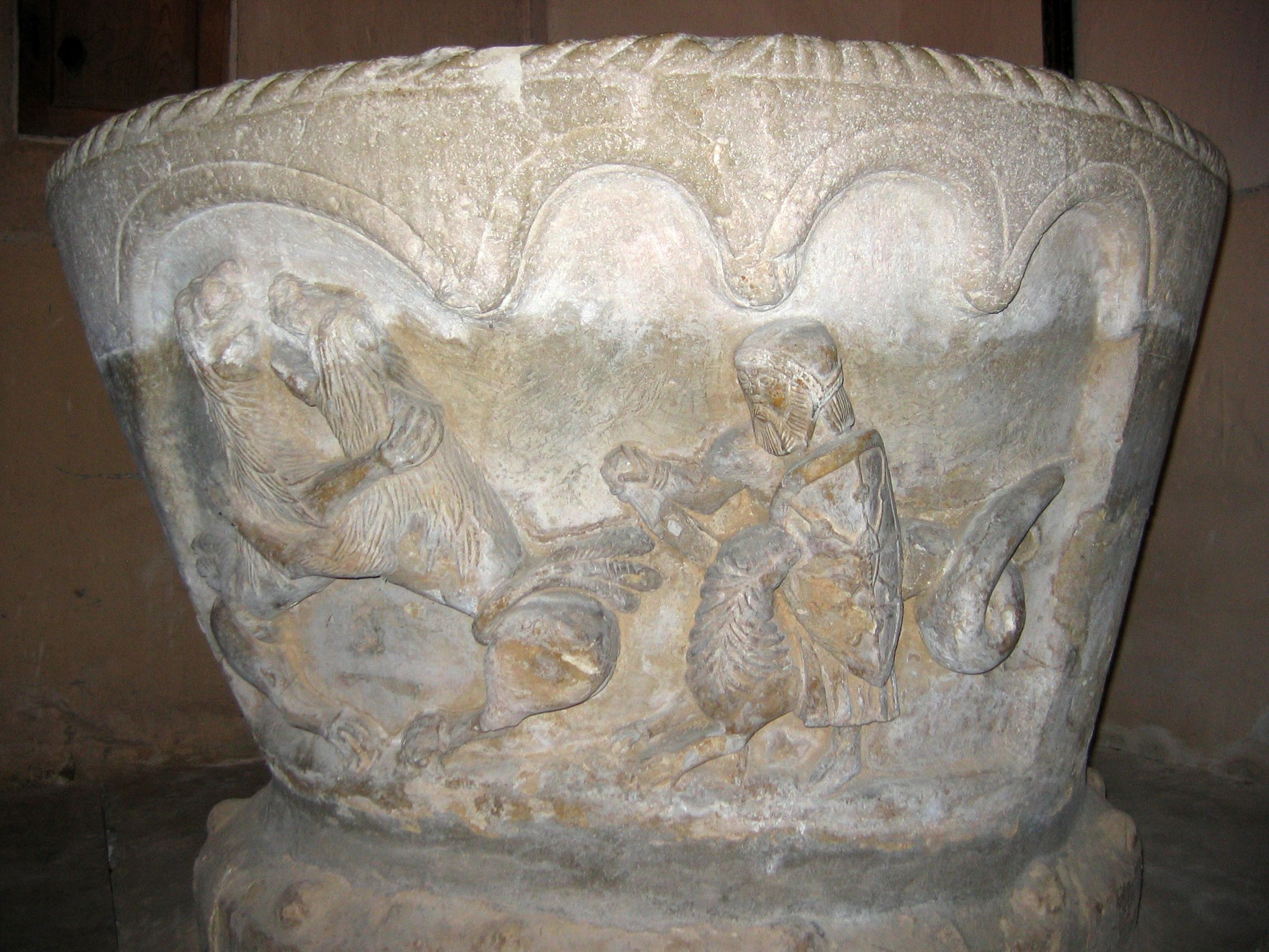 Baptismal font in church of San Cristóbal in Arenillas de Nuño Pérez (Palencia, Castile and León).